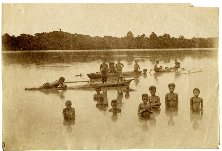 Black-and-white photograph in Fiji, gelatin silver print, by the Australian photographer John Watt Beattie. Photograph shows a group of men, women and children standing in a lagoon and on outrigger canoes. 13.5 cm x 20 cm. Courtesy of the British Museum, London.